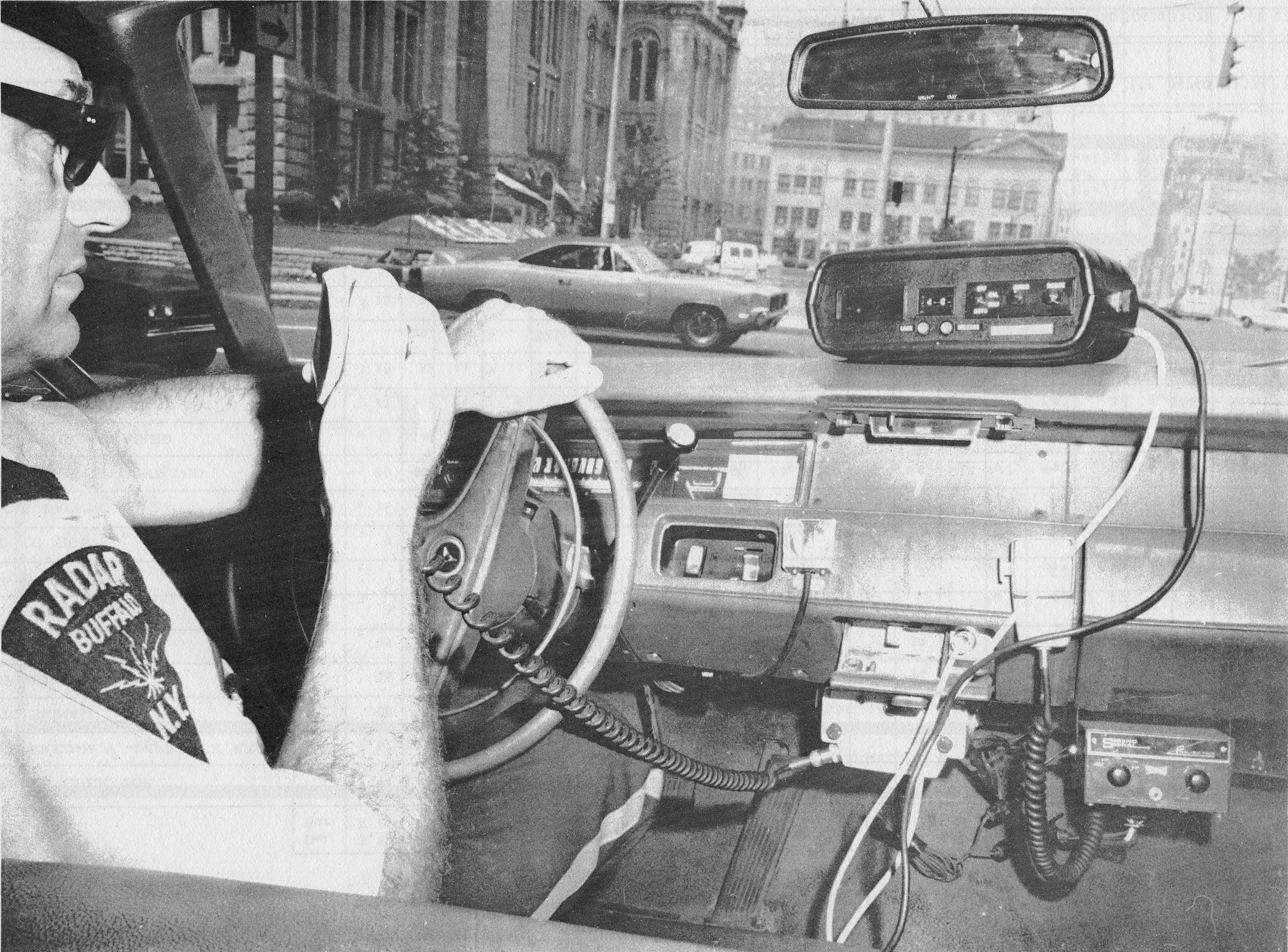 Original caption: "Division of Traffic. Radar unit."